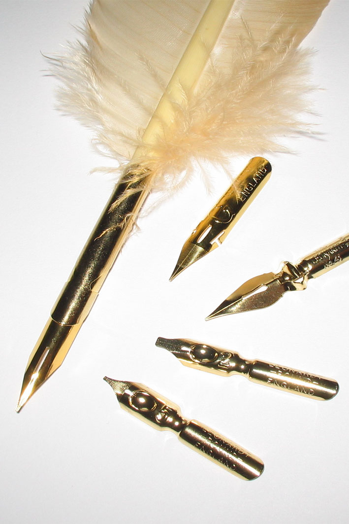 Dip pen with four different nibs.